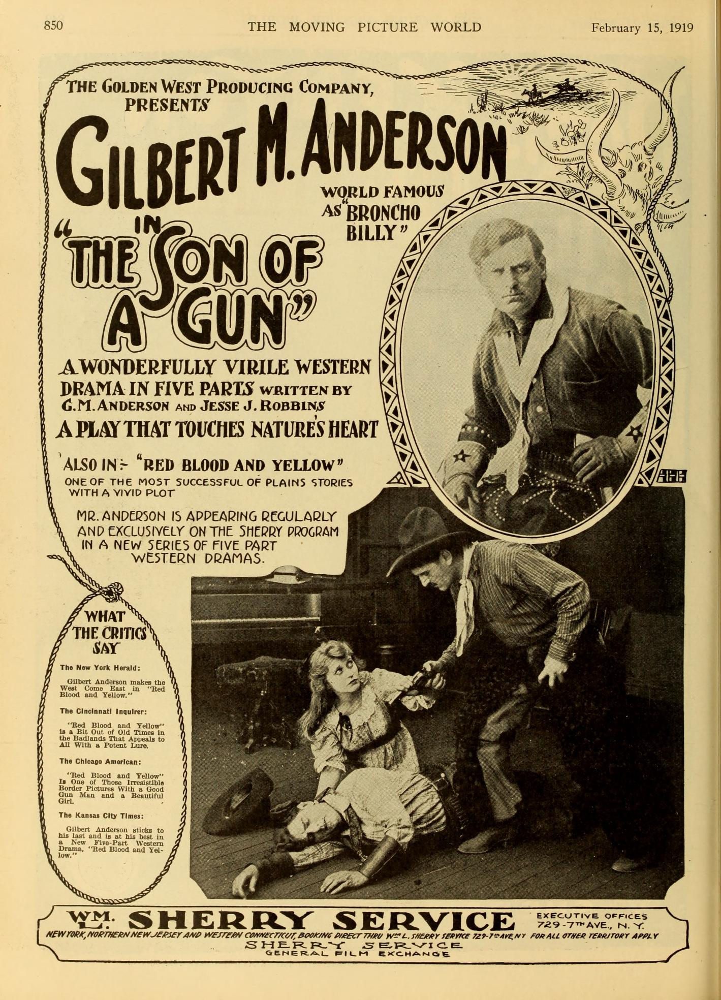 Advertisement on page 850 of the February 15, 1919, Moving Picture World for the American western film The Son-of-a-Gun (1919) with Broncho Billy Anderson (as Gilbert M. Anderson) and Joy Lewis.